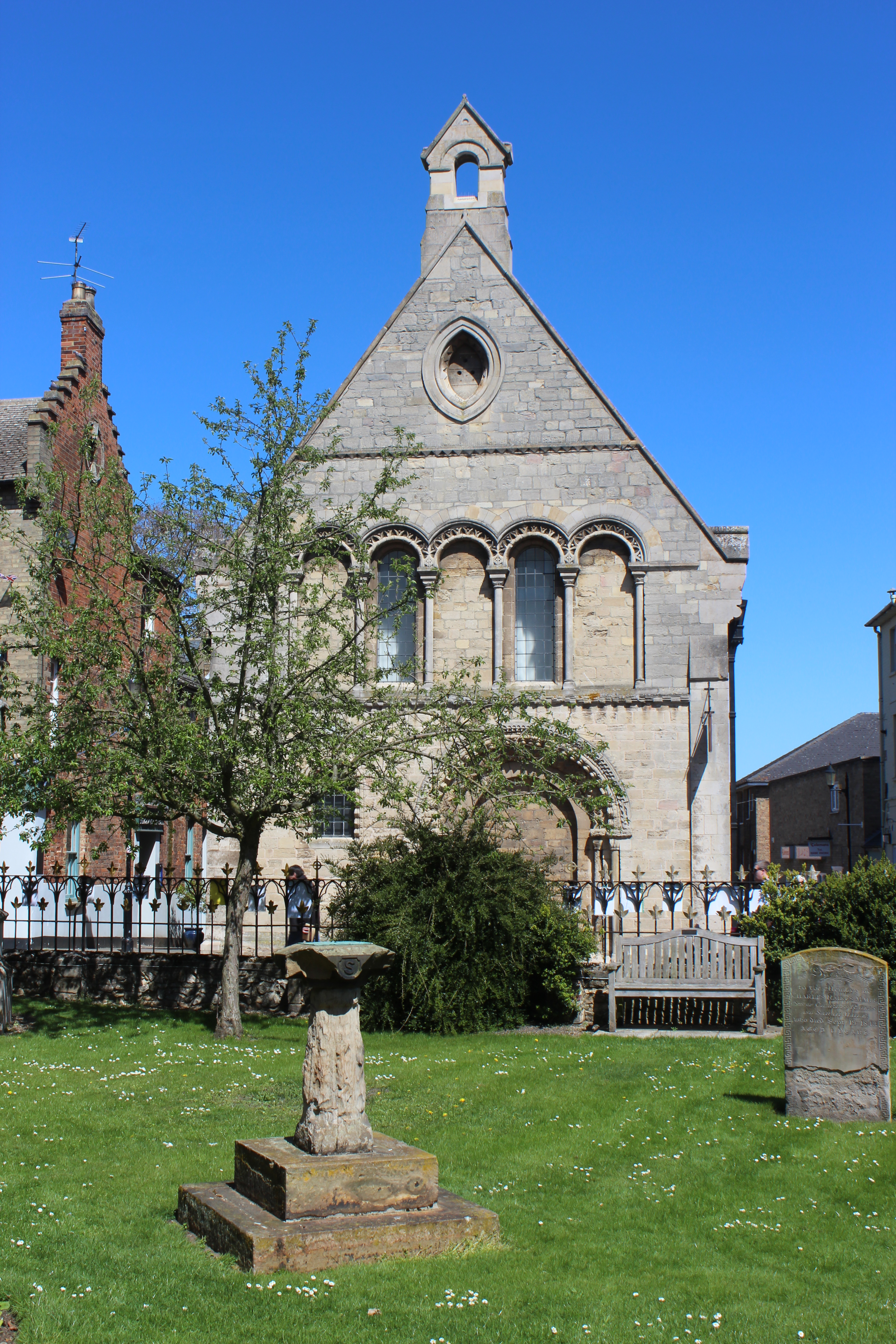 The west front of the Cromwell Museum, Huntingdon, taken in May 2013 by Robert Weedon. The museum is located in the former grammar school attended by Oliver Cromwell and Samuel Pepys, and retains features from the Hospital of St Johns, a medieval infirmary.